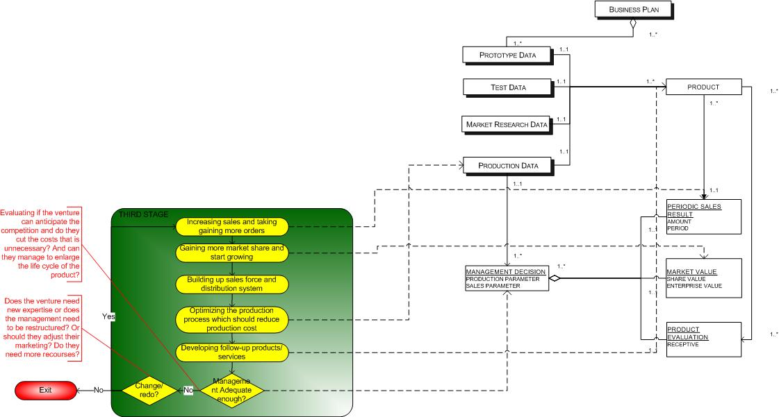 Process data model D